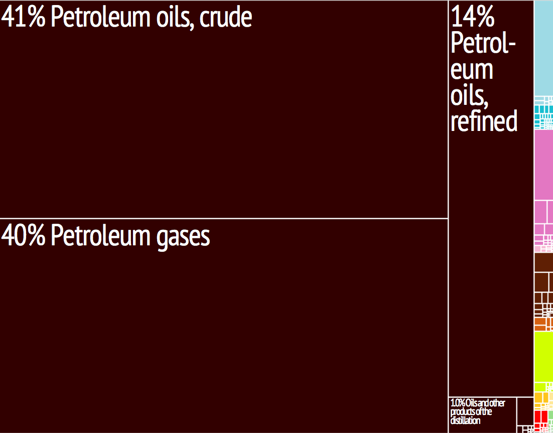 Algeria Export Treemap from MIT Harvard Economic Observatory